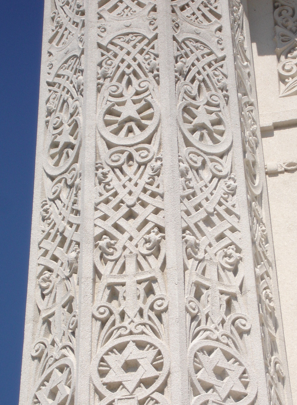 Concrete reliefs along the side of a pillar on the Baha'i House of Worhsip in Willmette, Illinois